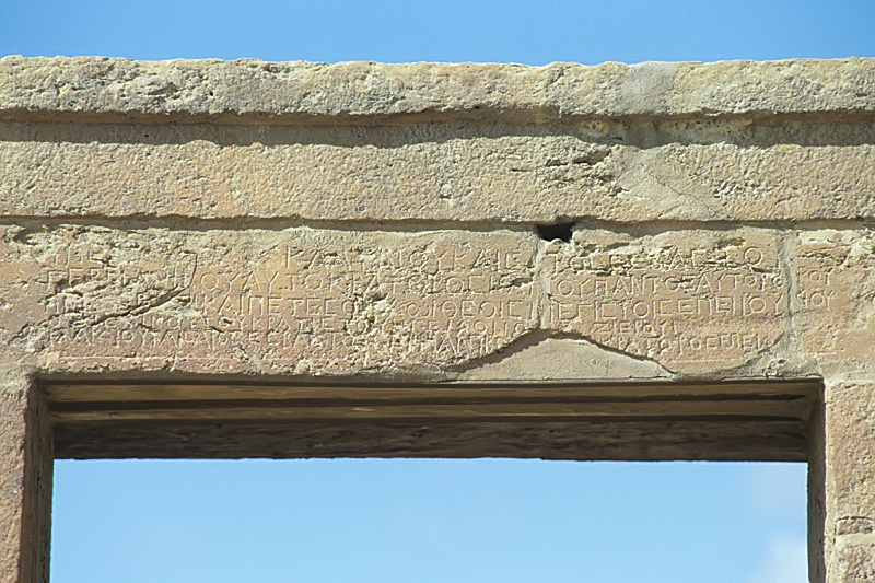 Greek inscription at the south temple, Kom Aushim (Karanis), el-Fayyum, Egypt